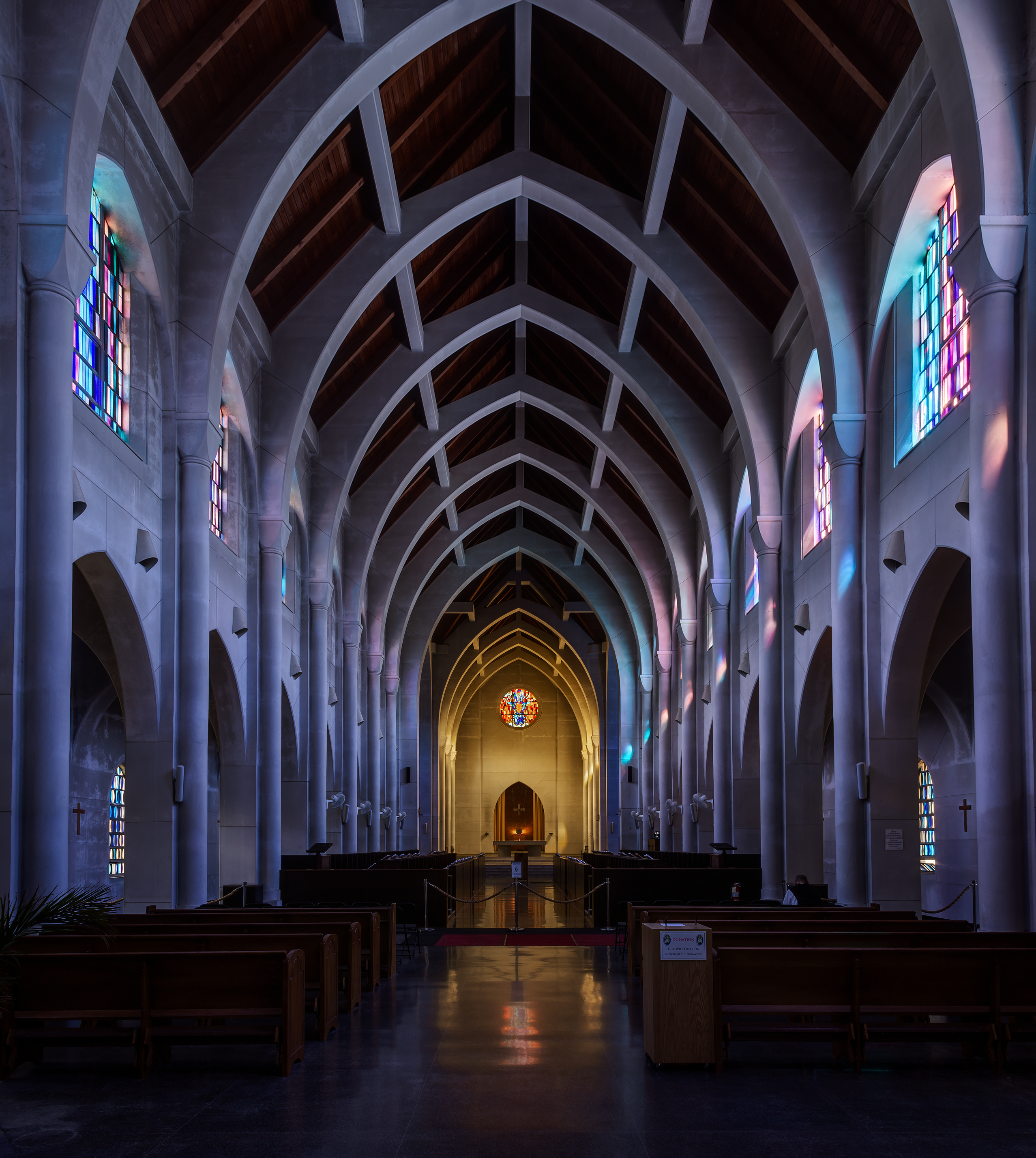 An image of the interior of the abbey of the Monastery of the Holy Spirit in Conyers, Georgia. Great care and effort were taken to portray as closely as possible the true colors and light level perceived by a dark-adapted human eye. The image was created from two separate images stitched into a vertical panorama allowing the full structure of the building to be seen in a single image. Highlights in the stained glass windows and light shafts were controlled through conservative use of manual exposure blending. Determination of hue and saturation were aided by notes taken on-site at the time of exposure. Other than the above, the image had only relatively minor edits to contrast, exposure, white balance, sharpening etc.